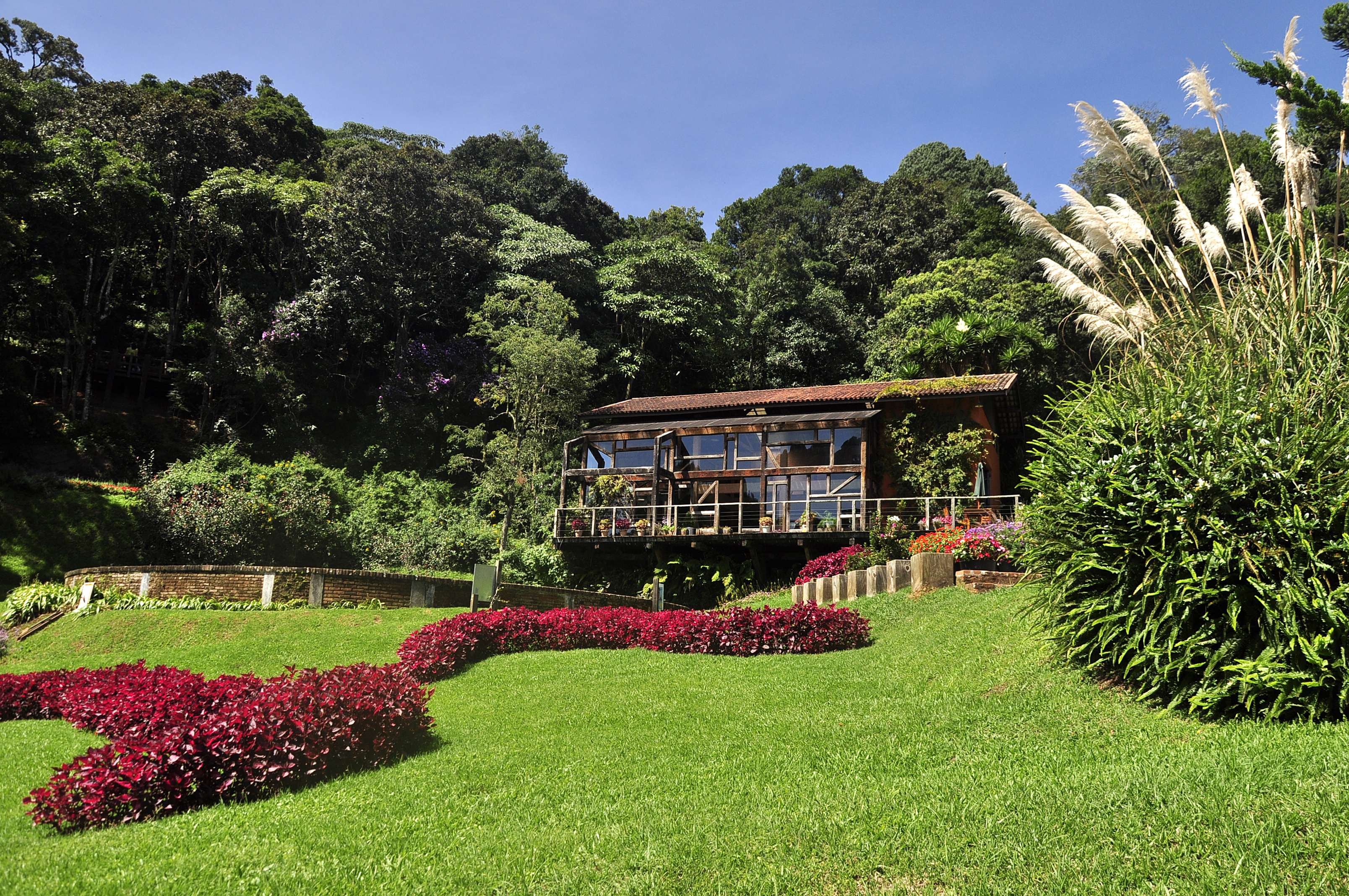 Vista da escola e do Jardim Austriaco de Amantikir